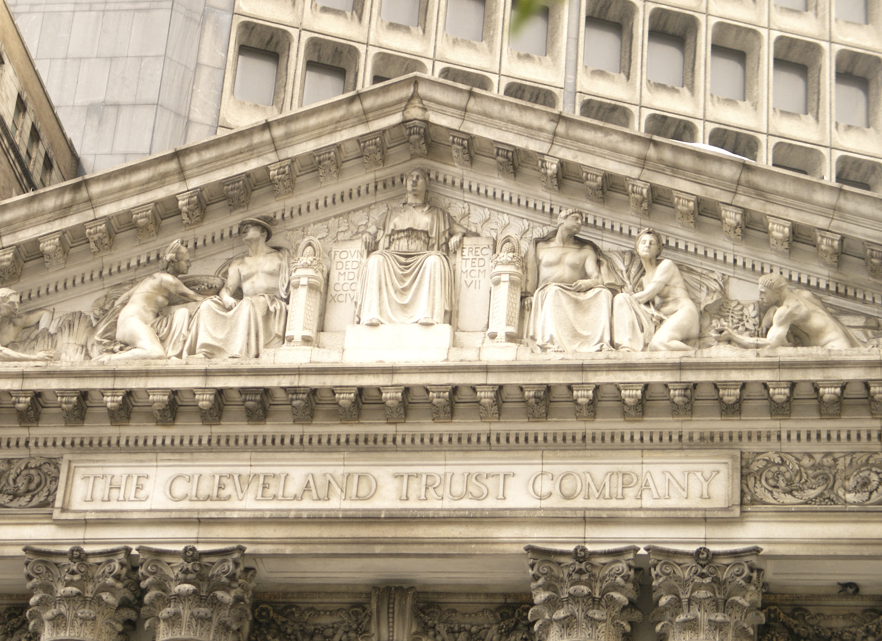 Cleveland Trust Rotunda, Cleveland, OhioCleveland Art Deco